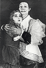 Abbas Mirza Sharifzade as Guinplen